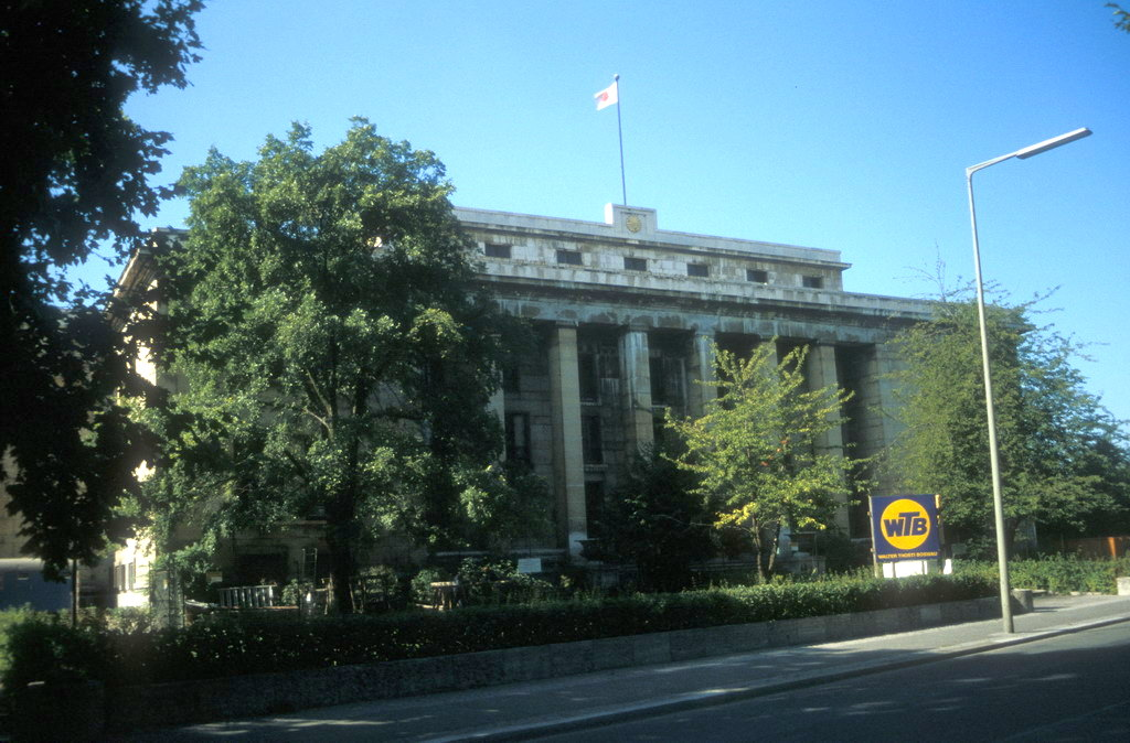 The Old Japanese Embassy in Berlin in 1985 (Hiroshimastr. 6, 10785 Berlin)